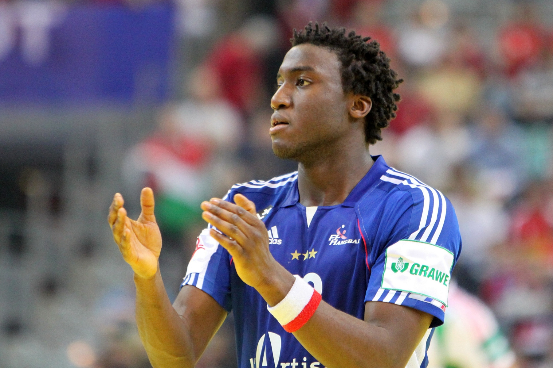 Luc Abalo (BM Ciudad Real), France national handball team